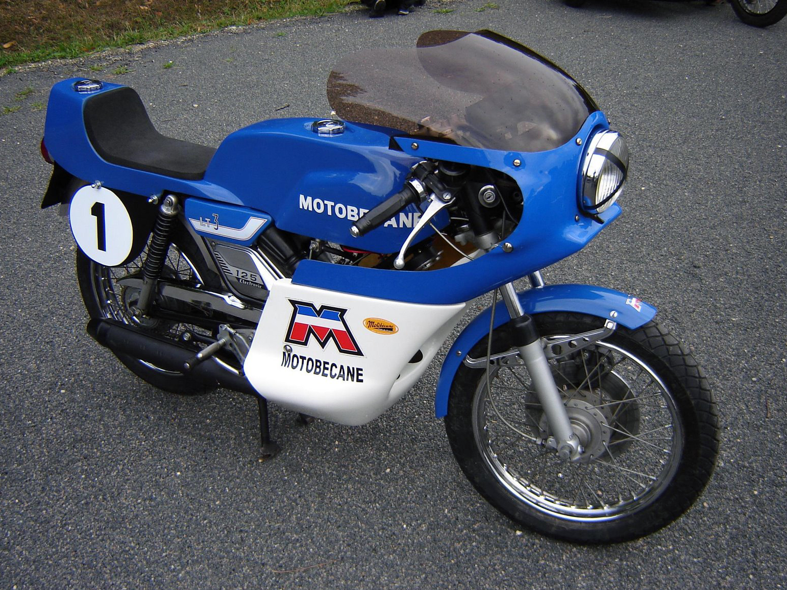 1977 Motobécane 125 LT3 Coupe - one of 1100 built in 1976 and 1977 - at the Autodrome de Linas-Montlhéry, 2009